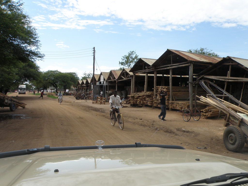 A wood market in Shinyanga town, Tanzania